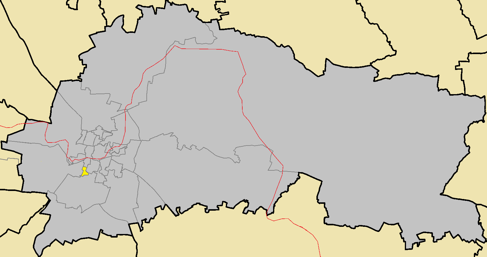 Nebethane in Nicosia Municipality.